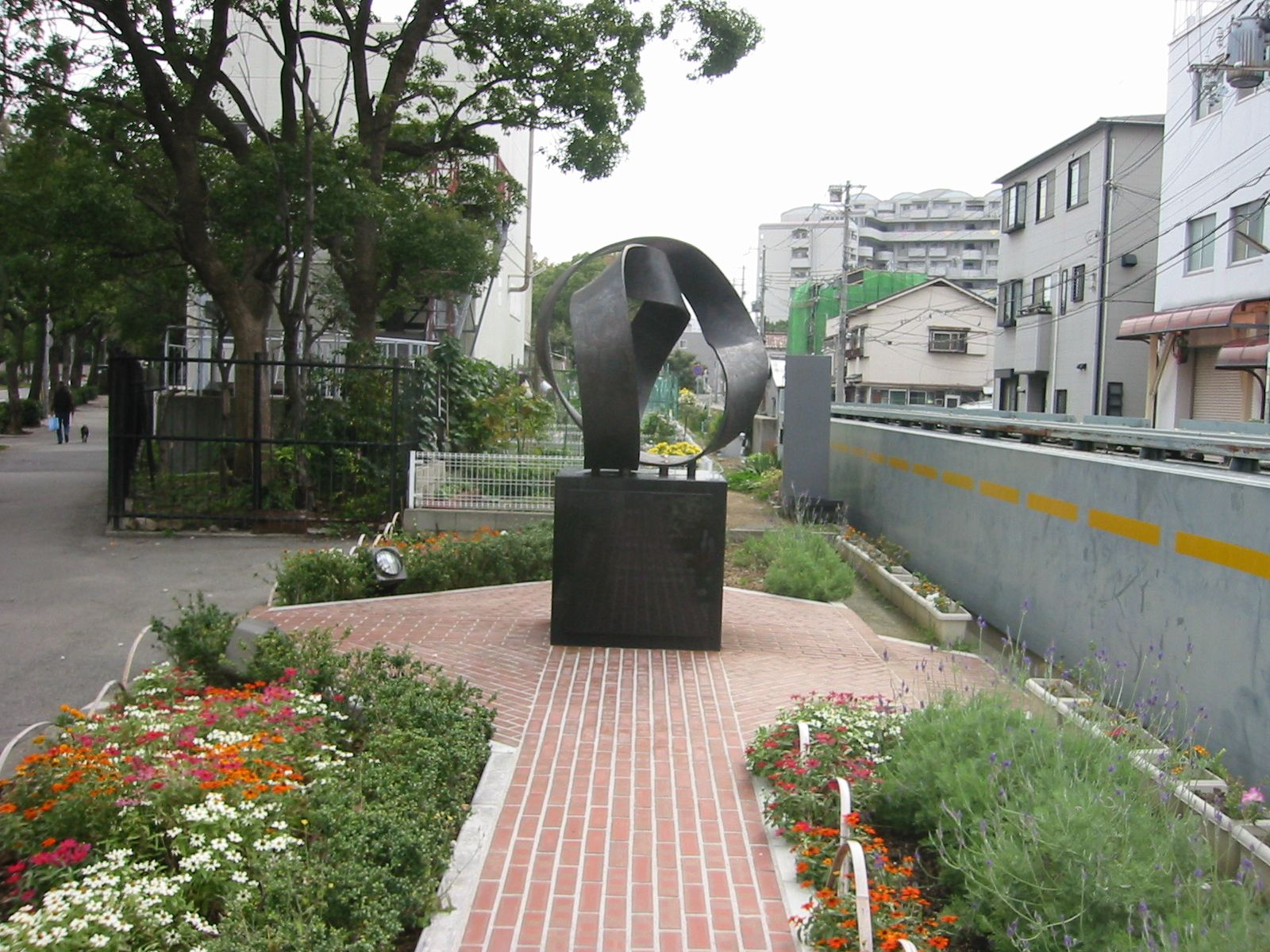 photo of Seishi Yokomizo's birthplace monument ,Higashikawasakicho, Chuō ward, Kobe, Hyogo, Japan.He was born in 1902.He was writer of mysteries in the Showa period.